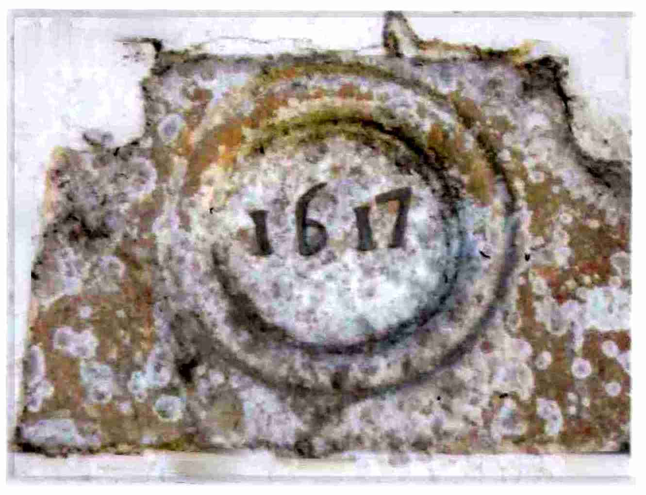 UK Uffington School plaque dated 1617